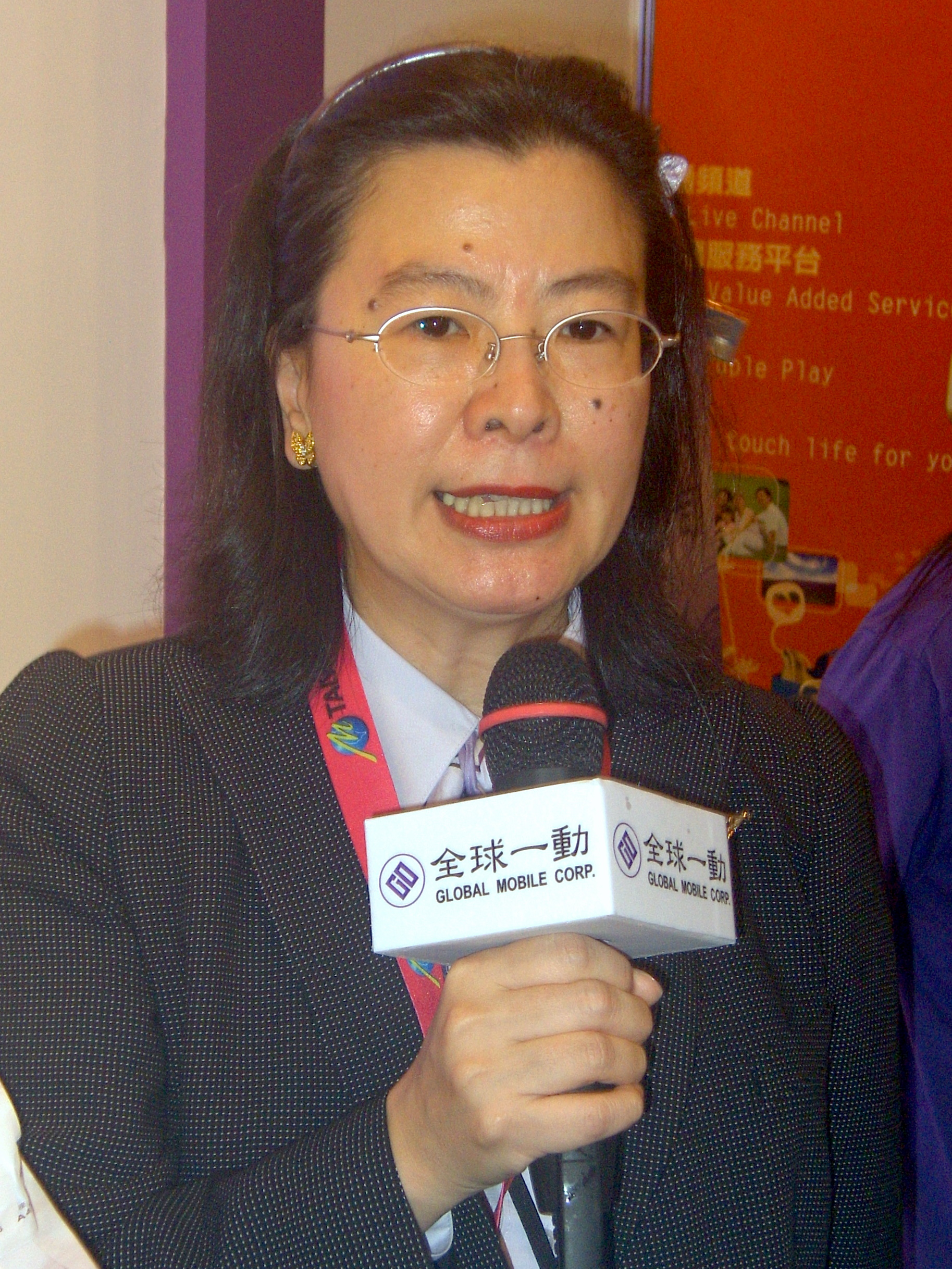 2008 WiMAX Expo Taipei: Rosemary Ho, Chairman of Global Mobile Corp.中文（台灣）: 全球一動董事長何薇玲。